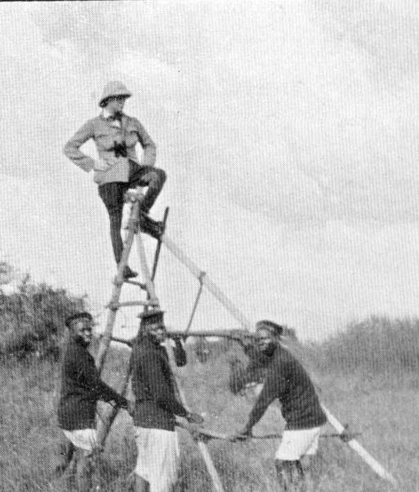 Winston Churchill atop a mobile "observation ladder" during his African journey in 1908.